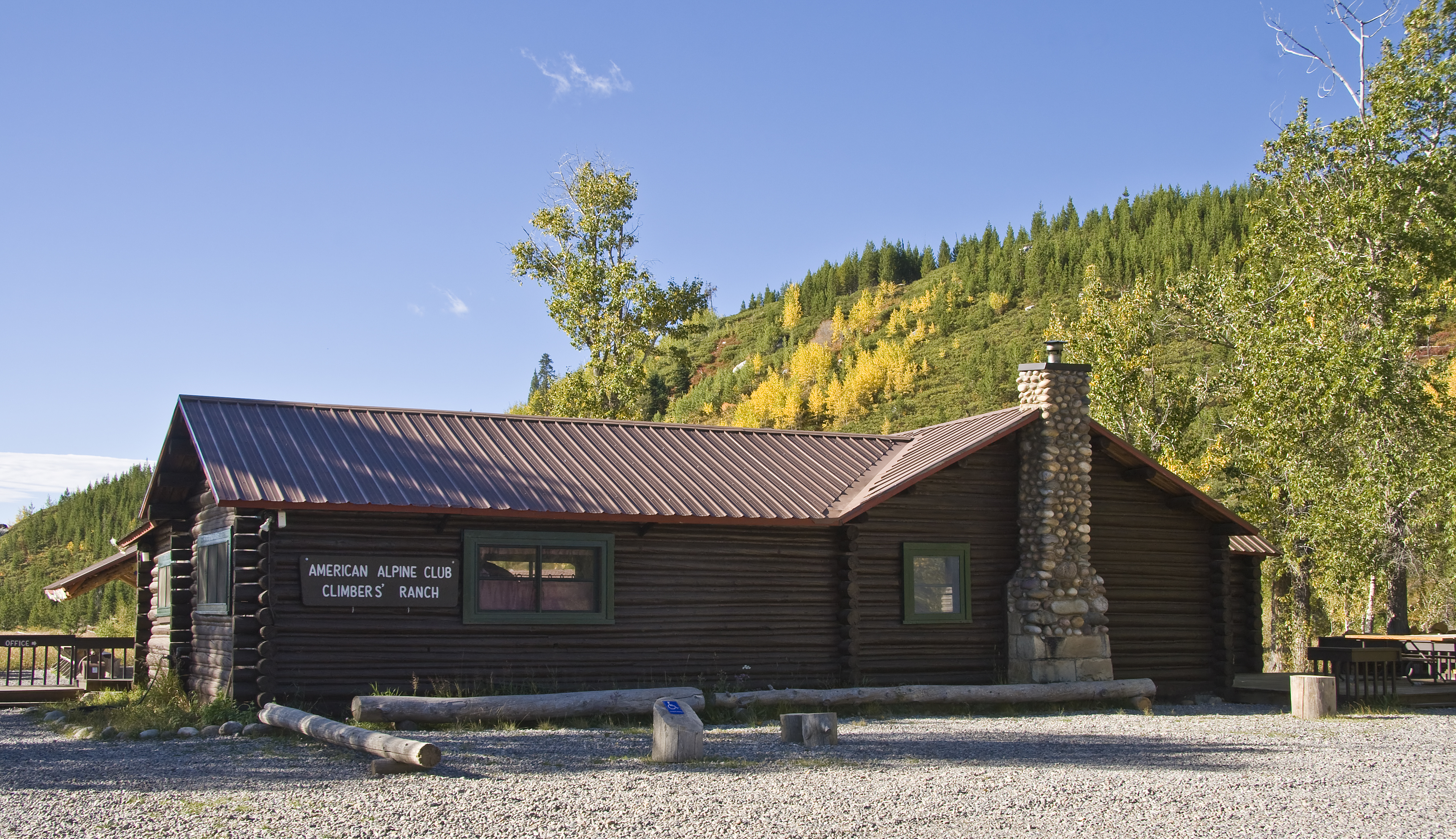 The Climber's Ranch at Grand Teton National Park, formerly the Double Diamond Dude Ranch dining hall.